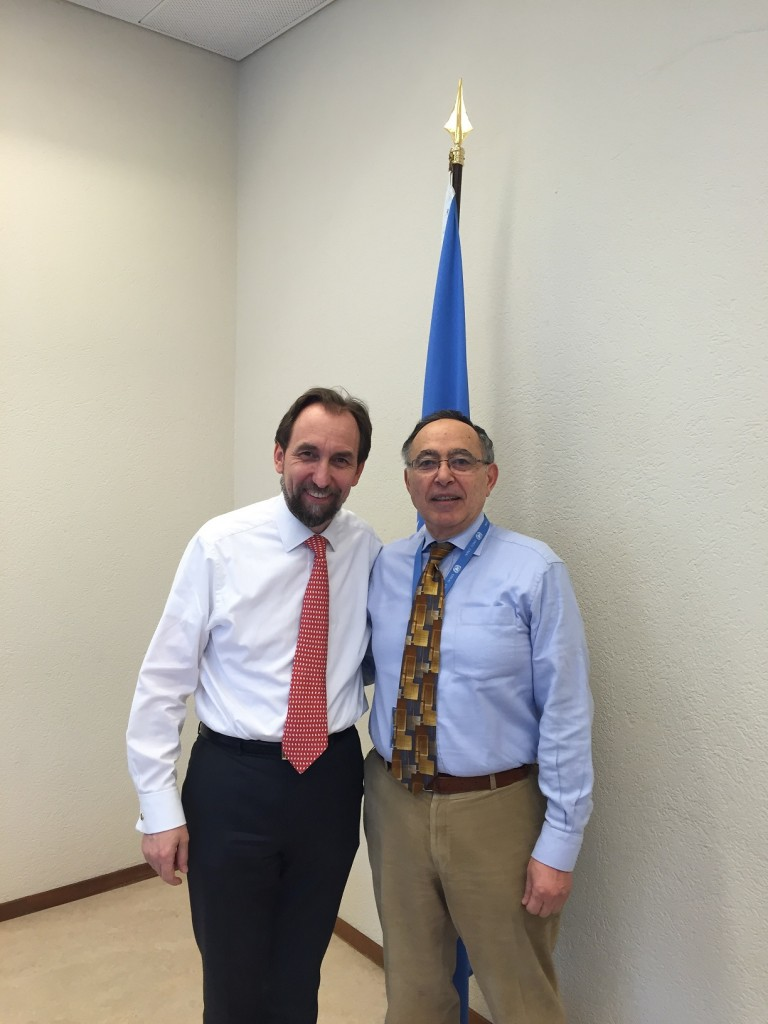 United Nations High Commissioner for Human Rights Zeid Ra'd and Bahey eldin Hassan